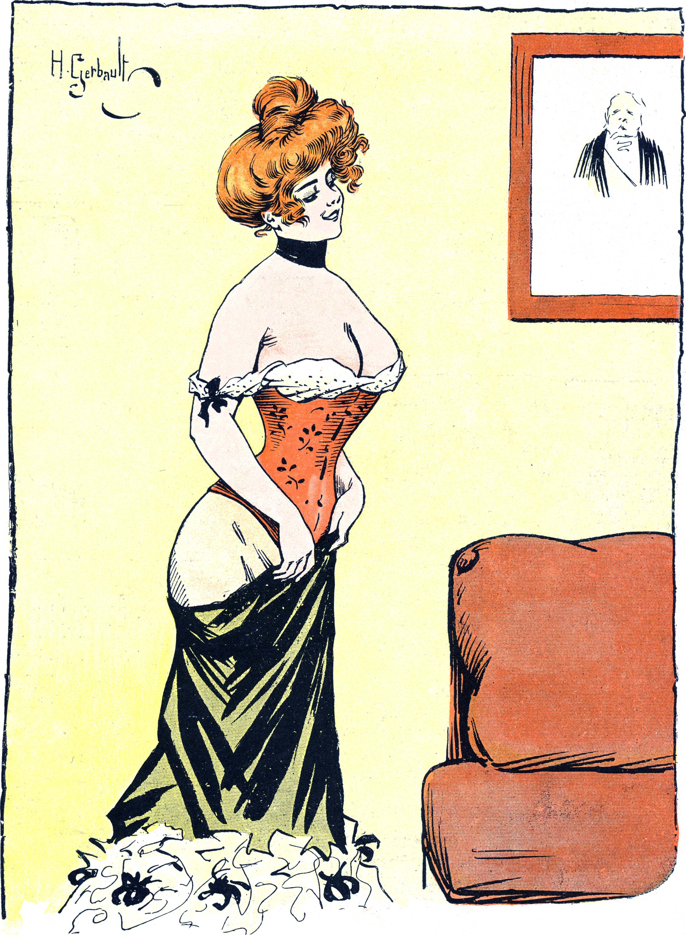 Elevating Fashion. She: „now, look at me. how the new corsett slims me.“ He: „Yes, but, that which was down is pushed up and out“